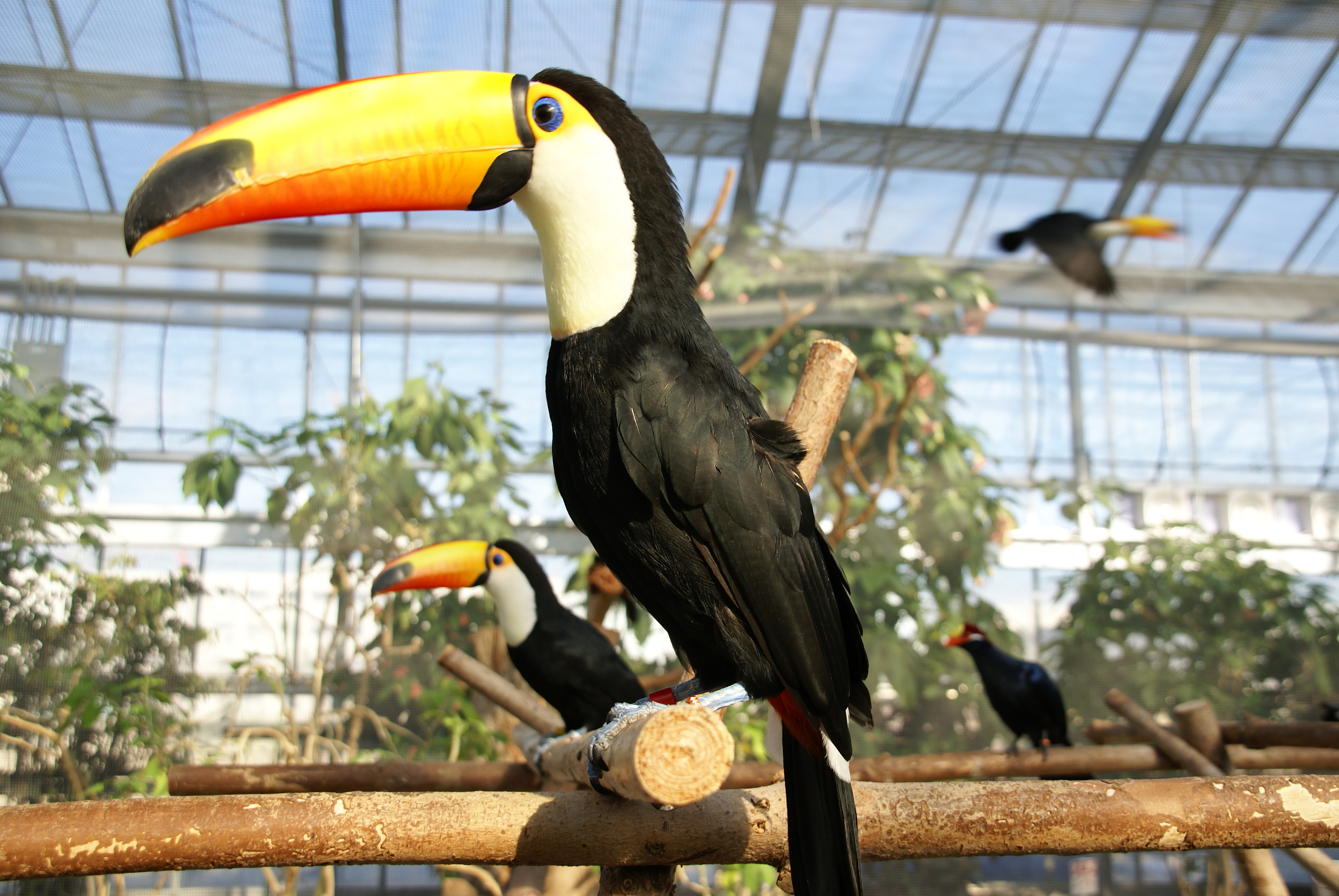 Kobe Kachoen (Kobe Flowers and Birds Garden) in Kobe, Hyogo prefecture, Japan